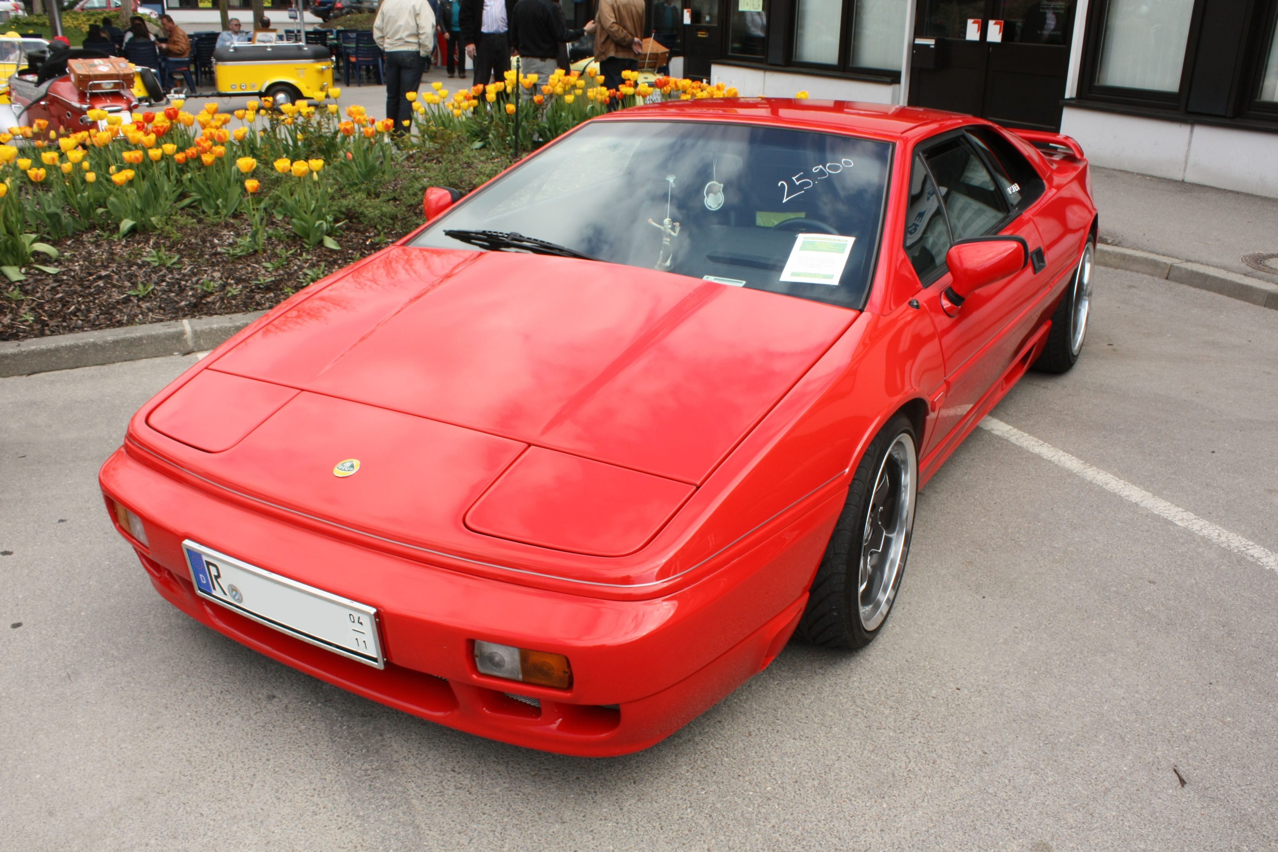 1990 Lotus Esprit Turbo SE